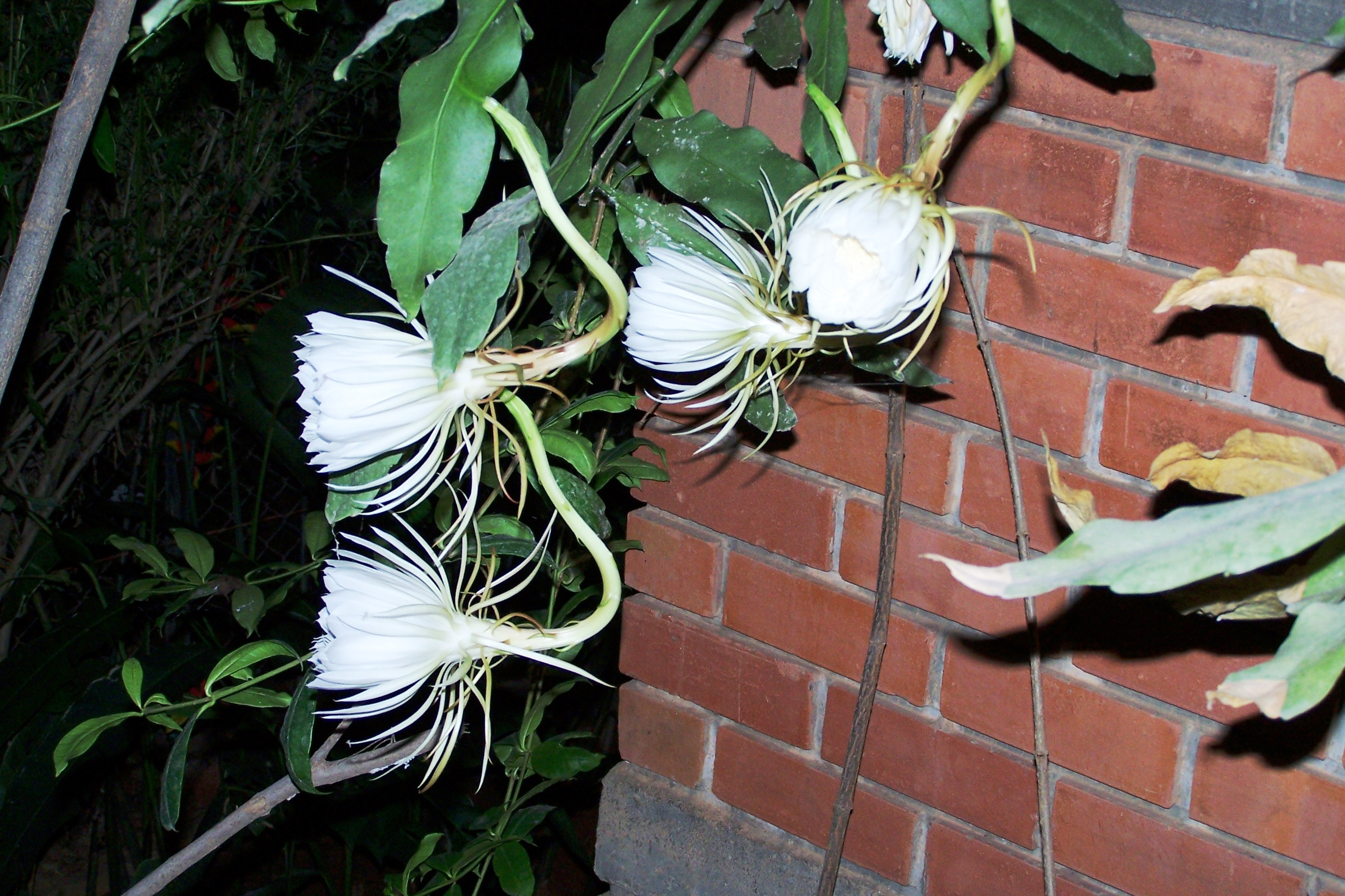 At Bangalore, Karnataka